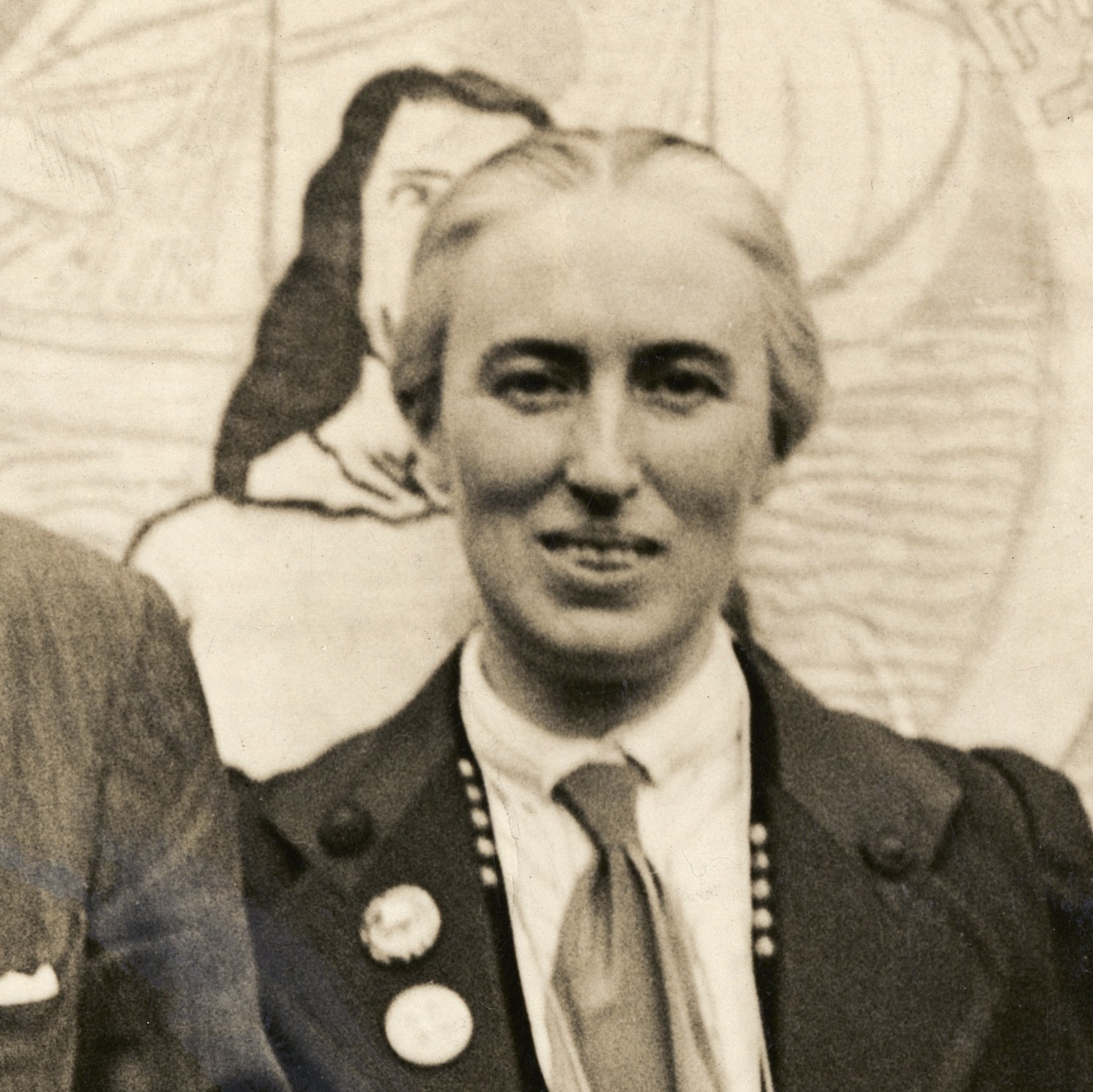 7JCC/O/02/144 Photograph, printed, paper, monochrome, Laurence and Clemence Housman wearing suffrage badges and standing in front of a suffrage banner; manuscript inscription on reverse 'Housman. Photo Standard'